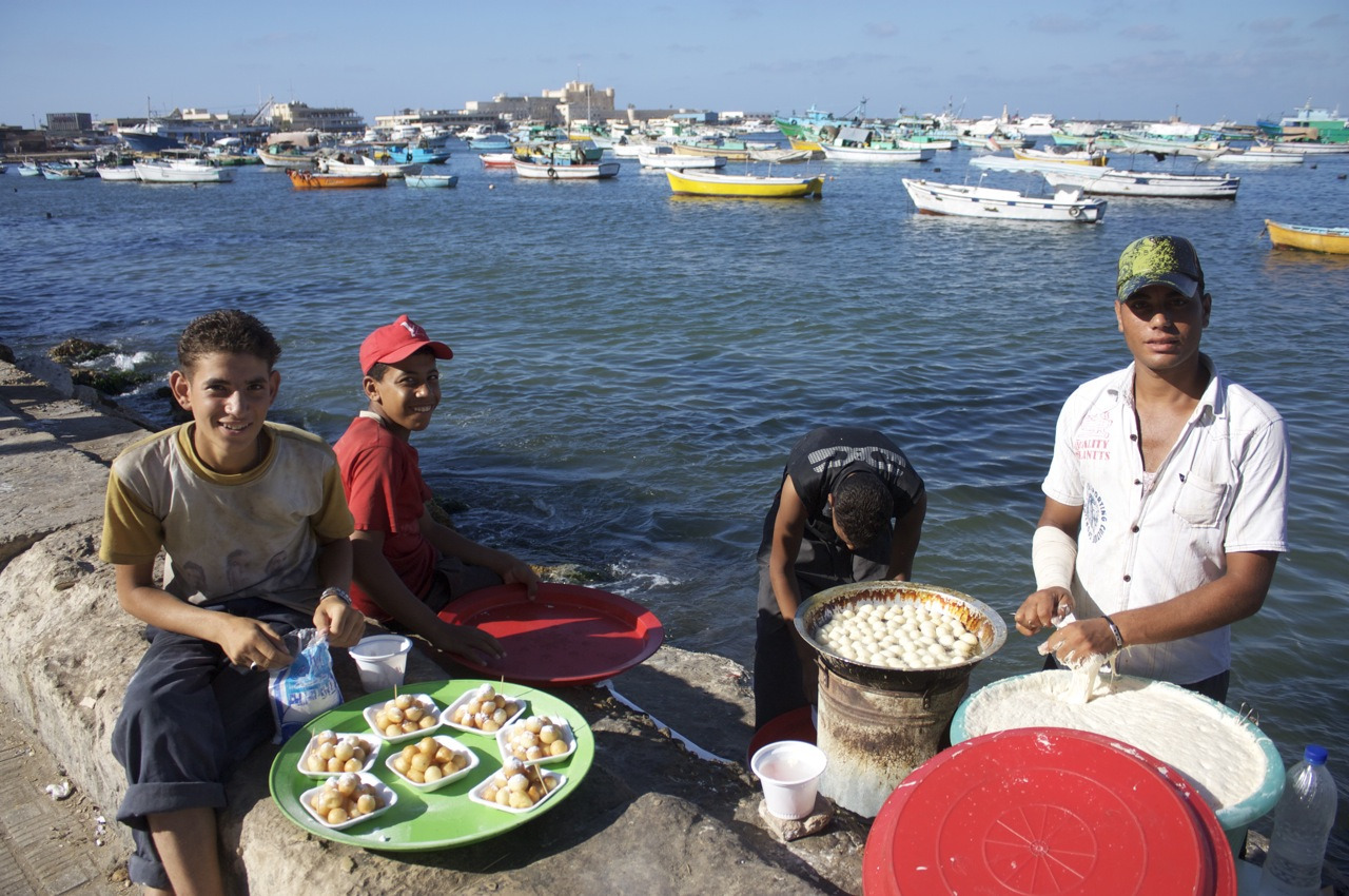 Men frying donuts on Alexandria's coast.